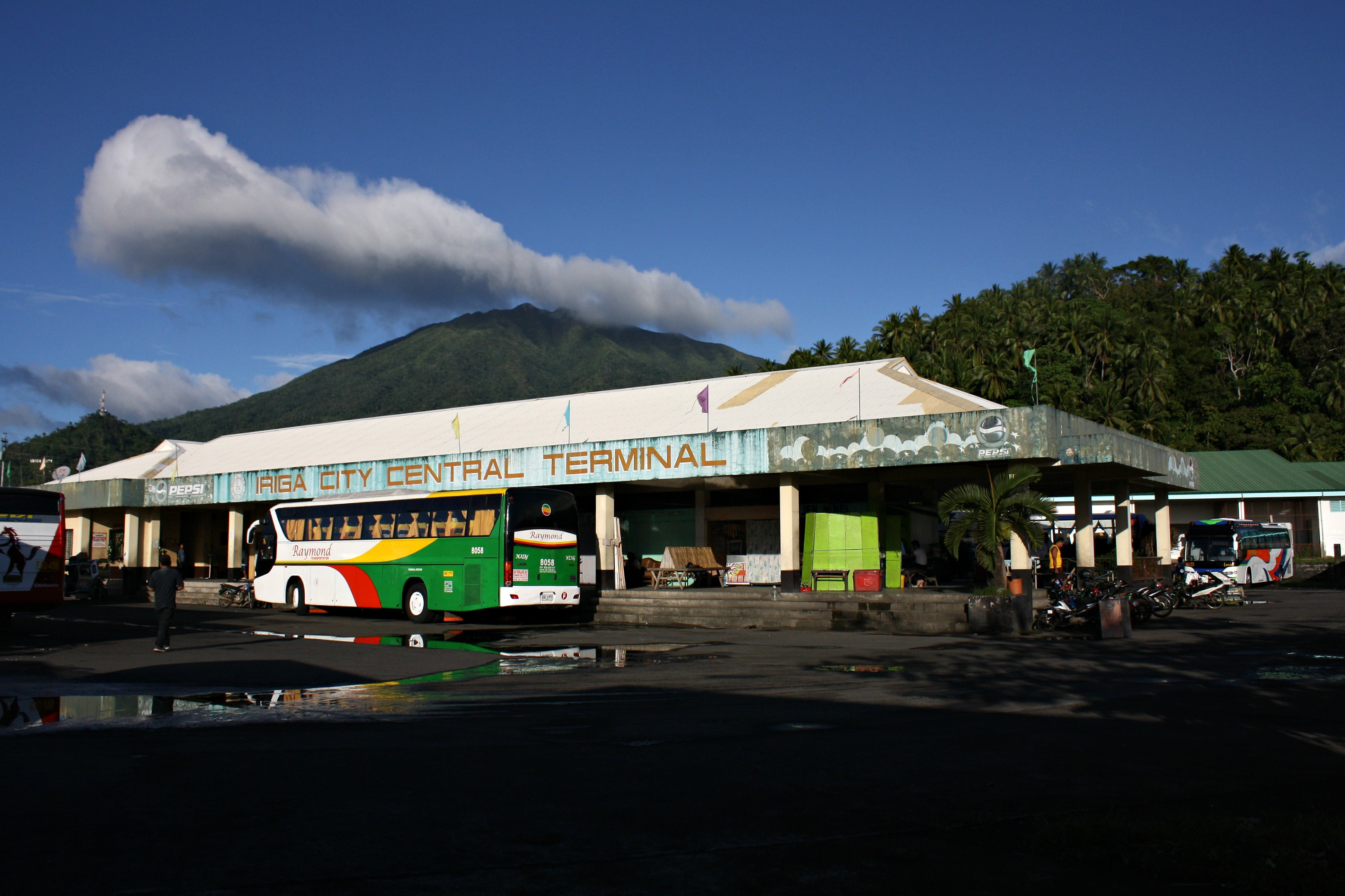 A key important establishment in Iriga City which is station to all types of transportation in and out of the city.